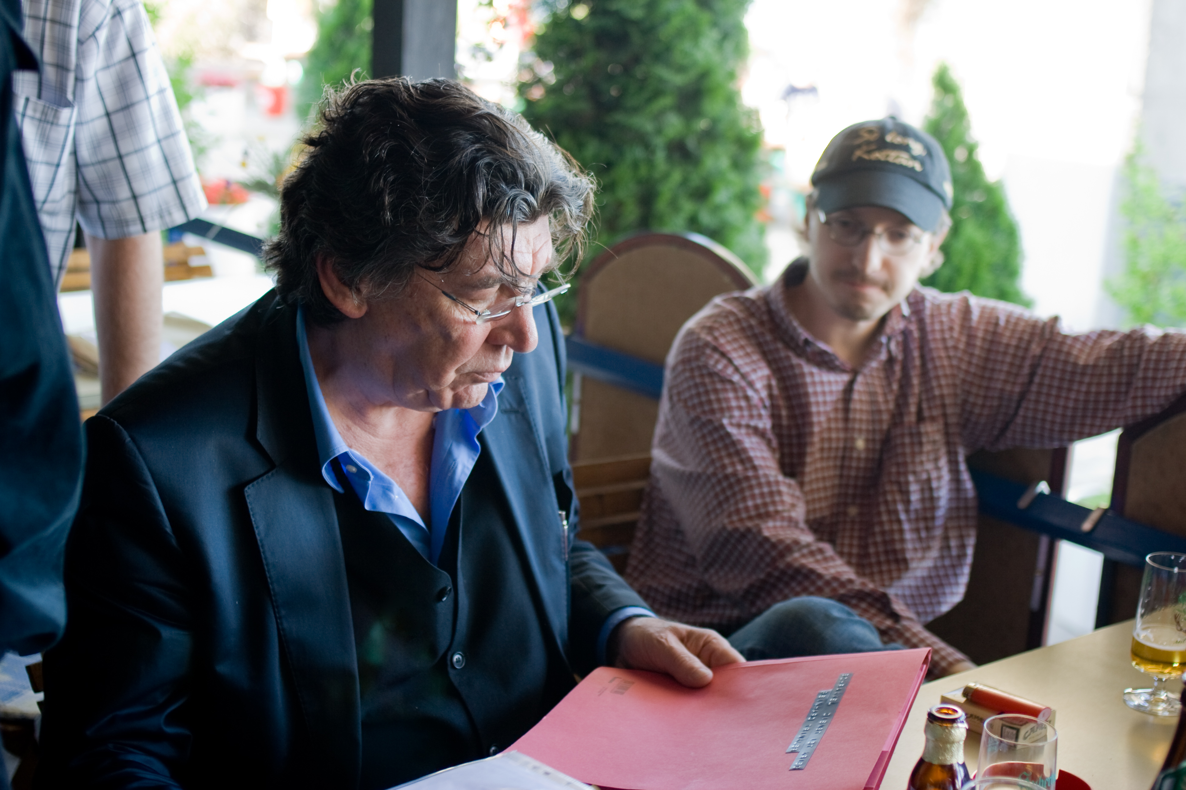 Peter Patzak und Jan Zenker See where this picture was taken. ?